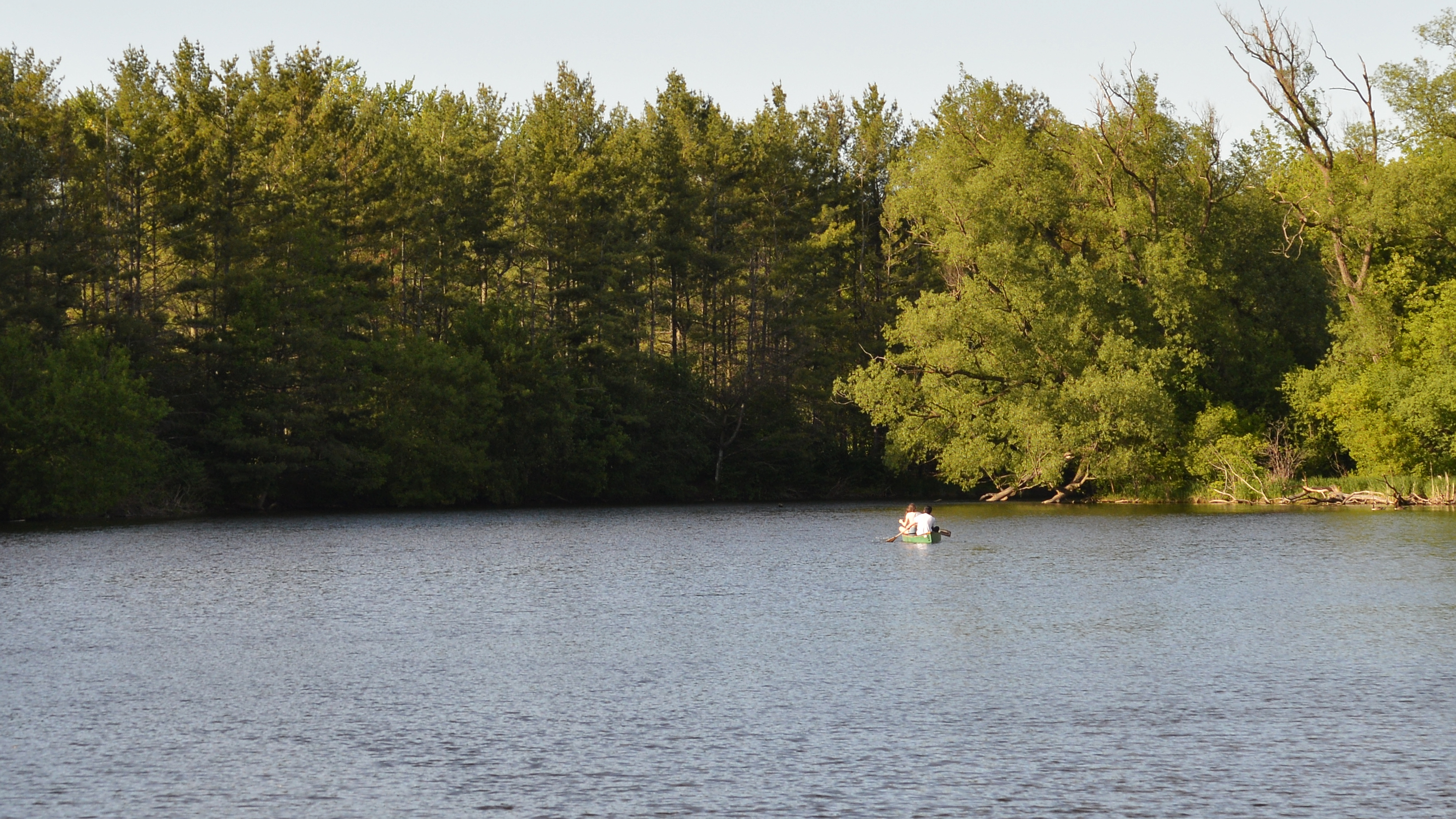 People canoeing at the Eramosa River and Speed River Confluence in Guelph, Ontario, Canada.